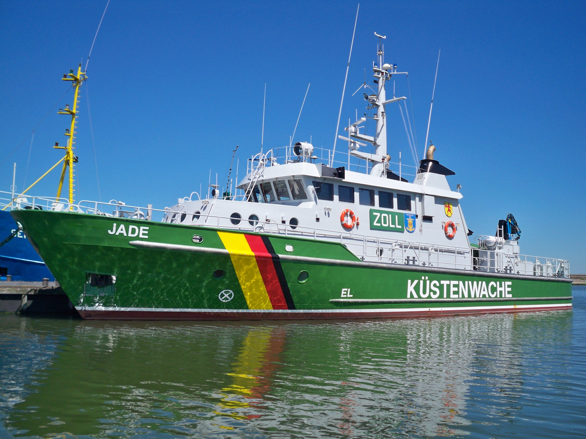 Customs patrol boat Jade based in Wilhelmshaven